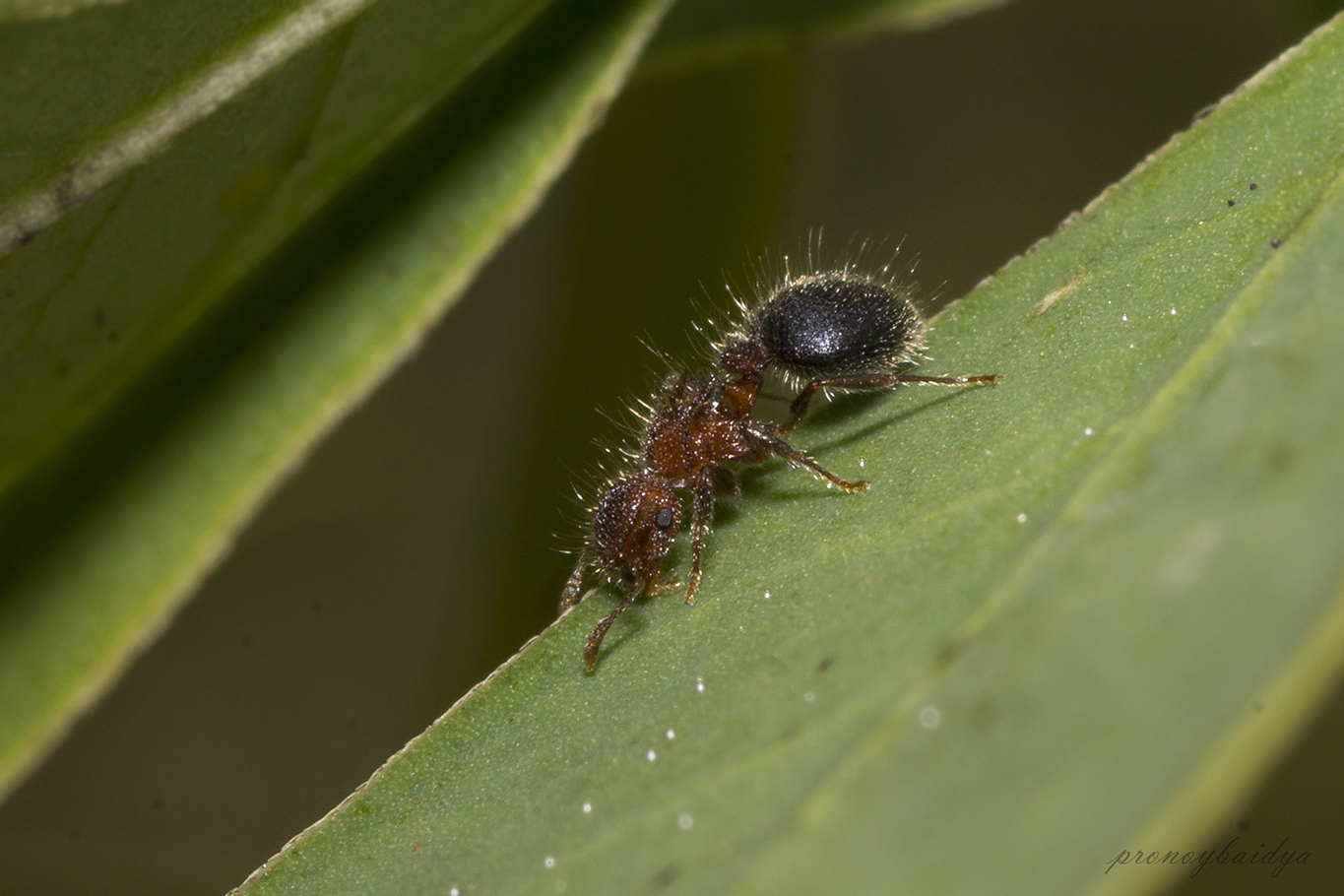 Meronoplus bicolor worker, foraging on Senna tora leaf